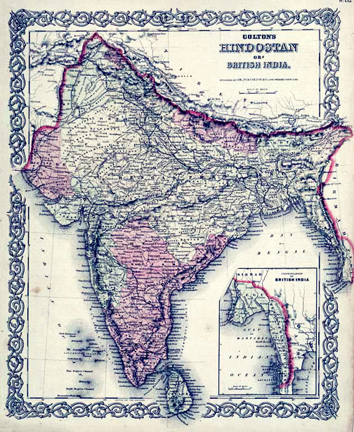 Map of British India, 1855. Published by G. W. and C. B. Colton and Company in New York, 1855. It was derived from an earlier wall map of the world produced by Colton and D. Griffing Johnson. Covers the subcontinent from Tibet to Ceylon (Sri Lanka). The map is divided into Bombay, Scinde, Punjab, Nepal, Bhutan, the Bengal Presidency, Madras and Ceylon. An inset map in the lower right quadrant shows British claims in Burma (Pegu) and Southeast Asia.